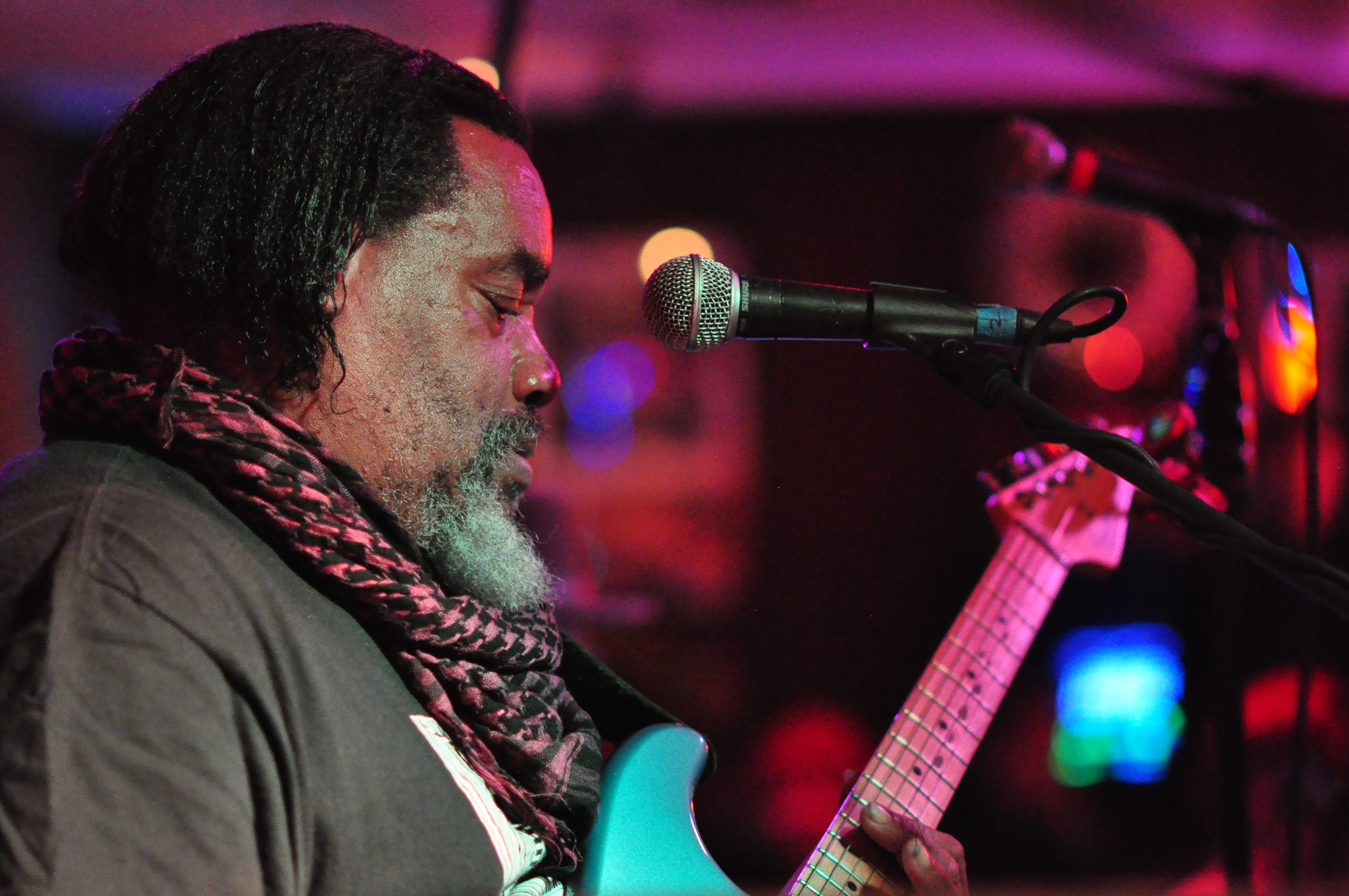 Ike Willis performing with Pojama People on the "Reindeer Ripped My Flesh" tour. Picture taken at Darrell's Tavern, Shoreline, Washington.